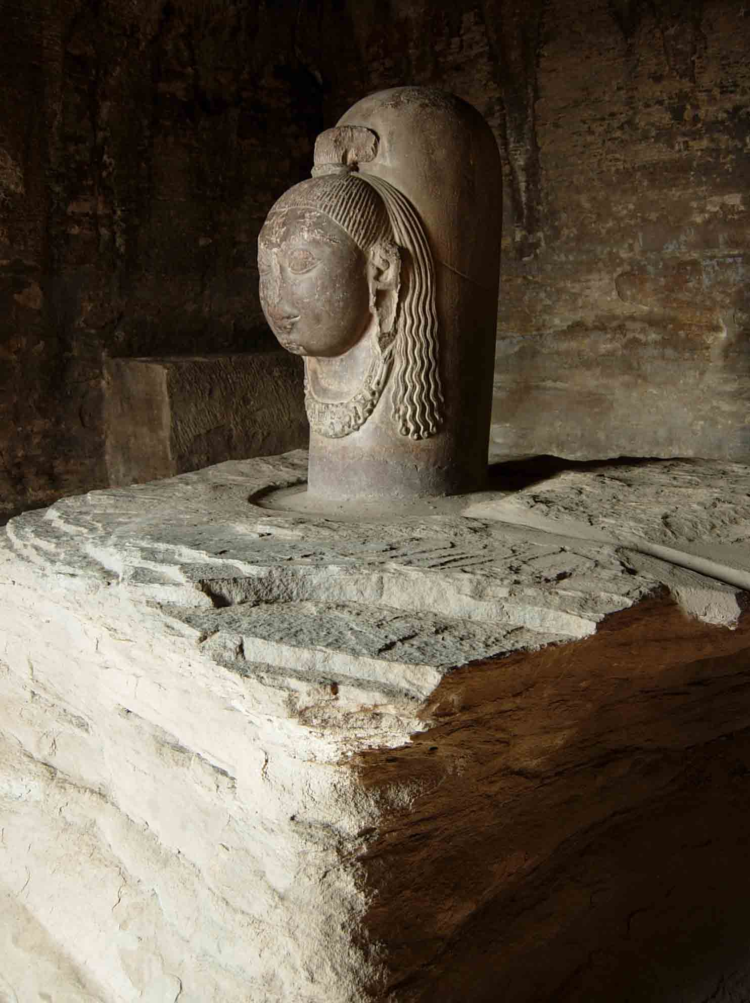 Udayagiri, Vidisha, MP, India. Linga in cave 4.